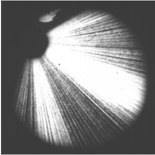 The Carcinotron was a microwave source that could easily tune its output frequency by changing a single input voltage. This allowed it to jam radar stations by sending out noise on a wide band of frequencies. This images shows the result. Four jammer aircraft are approaching the station, who's location is the dark spot in the upper left. Two are located at the 4 o'clock position, the other two at 5:30. In those areas, the signal from the carcinotron complete fills the display, rendering the returns from the aircraft, their "blips", invisible. The width of the bright bands is a function of the beamwidth of the antenna, which picks up the signal for several degrees on either side of the aircraft's position. Considerable amounts of noise are also visible at most other angles as well. The signal was so strong that it reflections off other objects could also blank out the radar, to some degree. Additionally, the signals also could be seen in the antenna's sidelobes. In this example, one such sidelobe is at the 2:30 position, and shows considerable noise. At closer range, the entire display becomes filled.